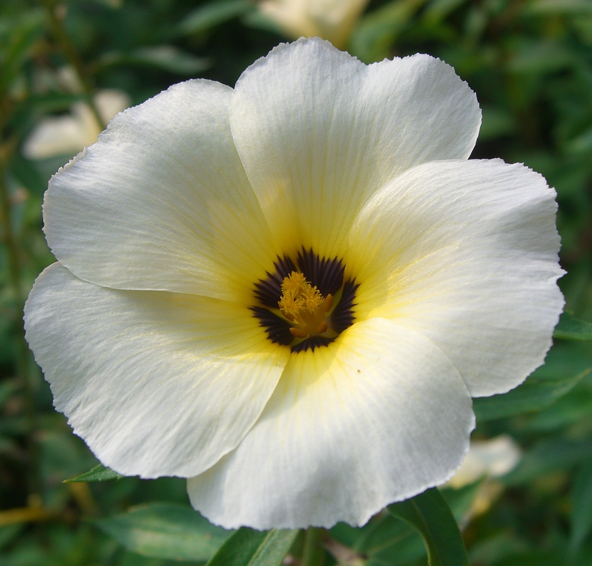 Please report references to .